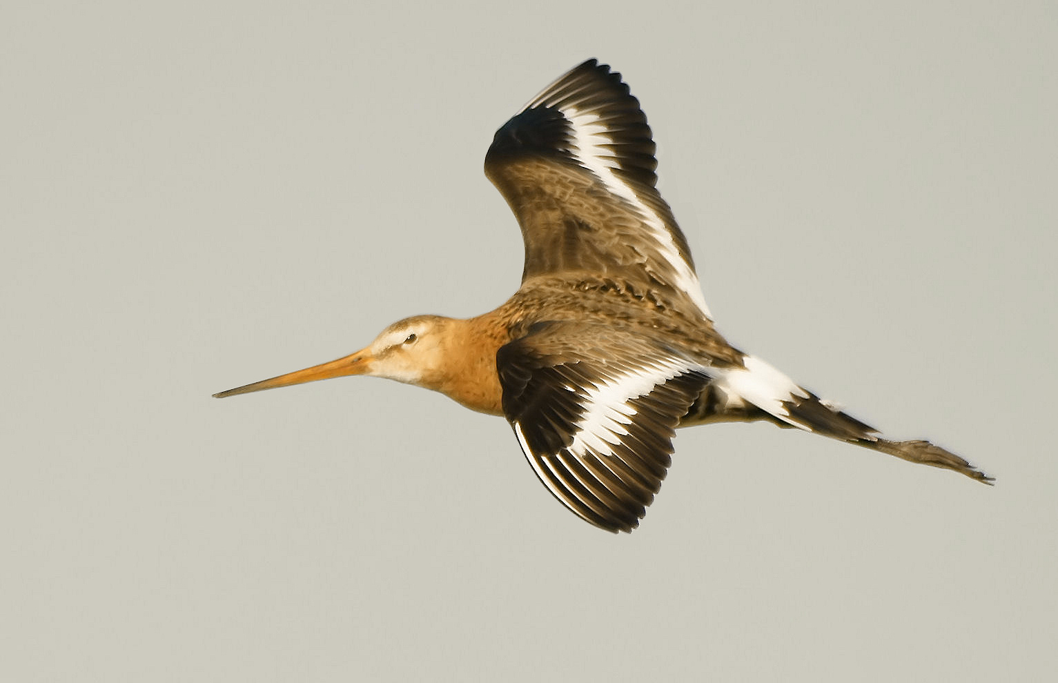 Black-tailed Godwit at Uitkerkse Polders, Belgium